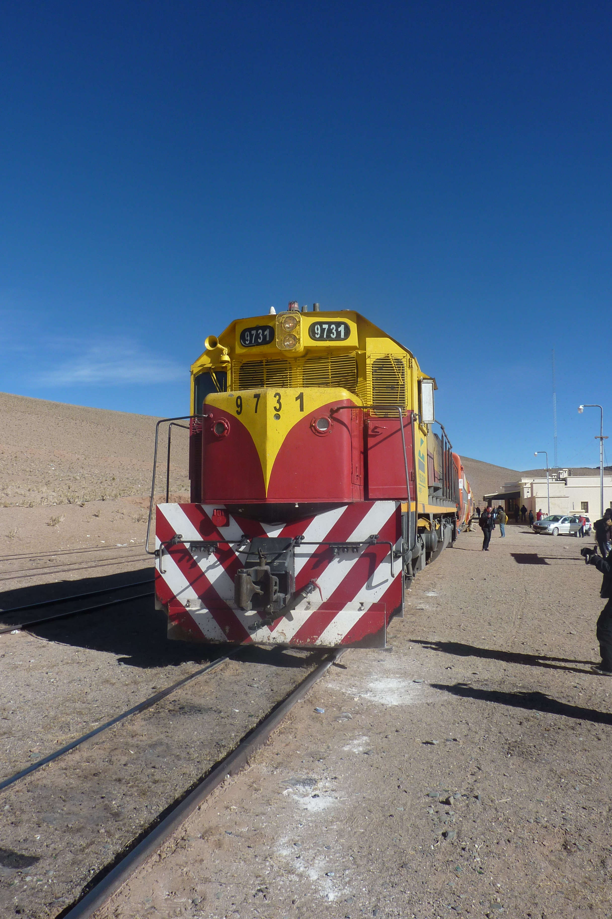 A GM GT22CU in San Antonio de los Cobres, Salta, Argentina. This train is used for the tourist train "Tren a las Nubes".